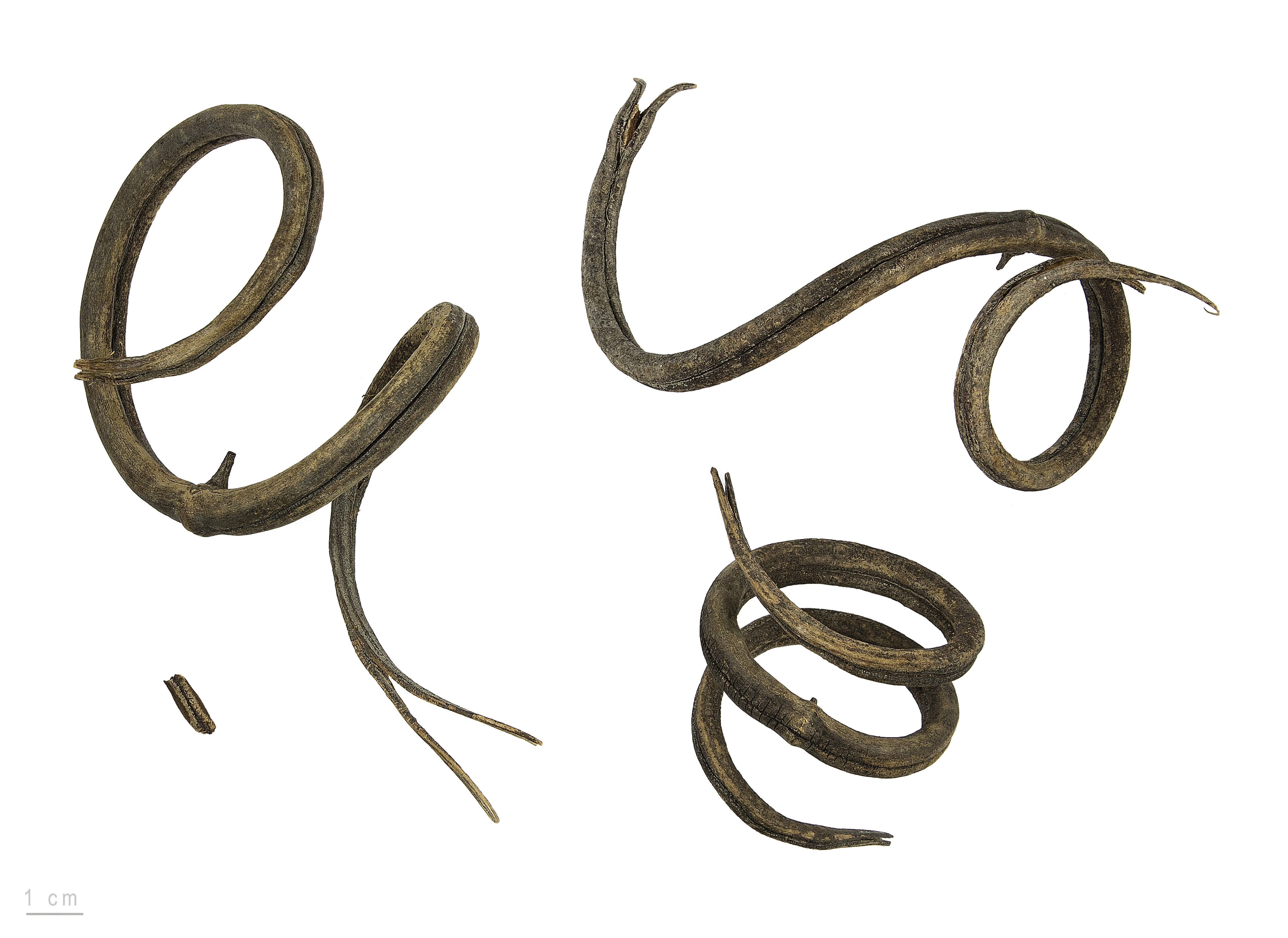 Skytanthus acutus , fruits and seeds